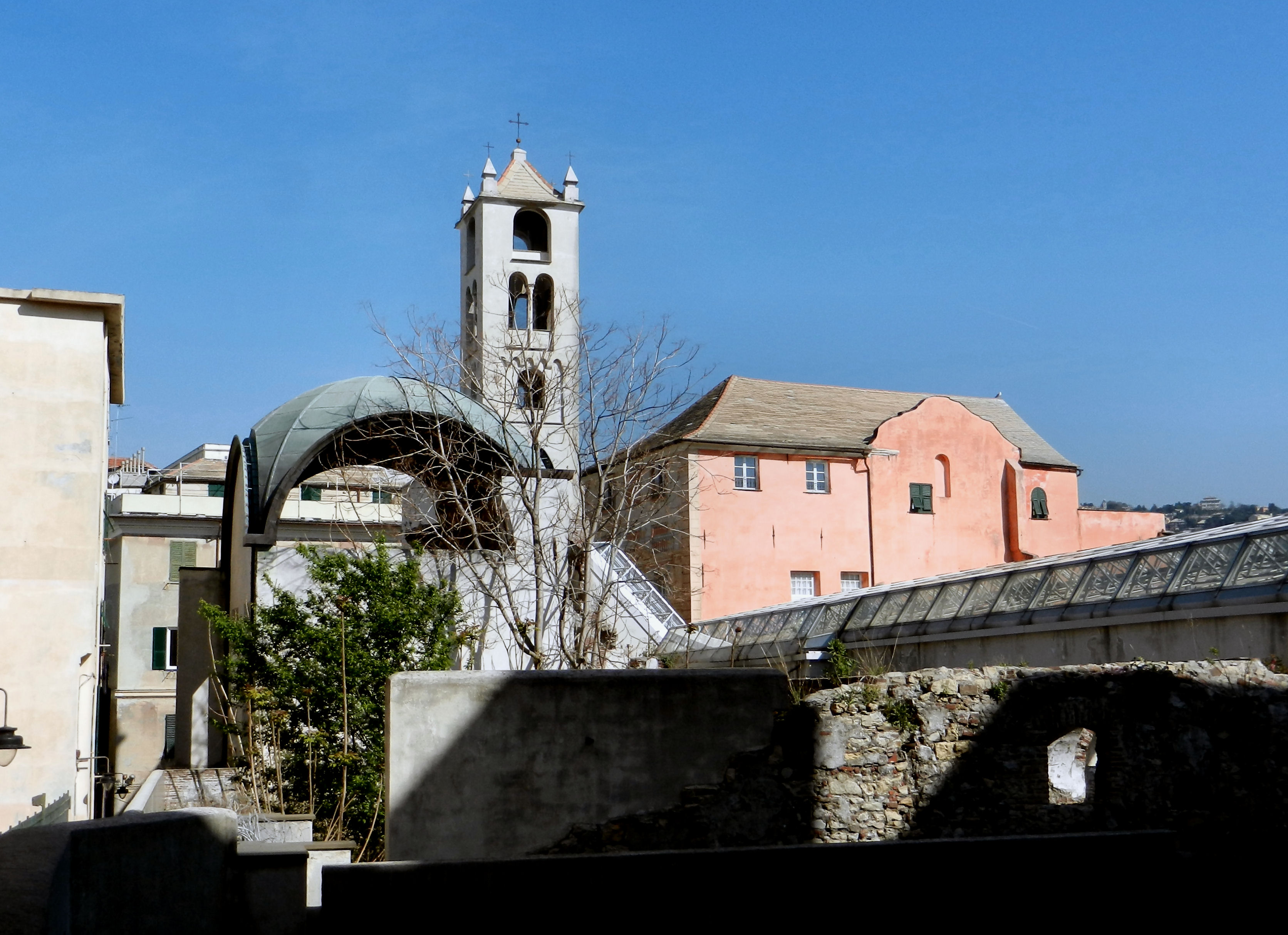 Genoa, Italy, quarter of Molo, ruins and bell tower of the church of Santa Maria in Passione